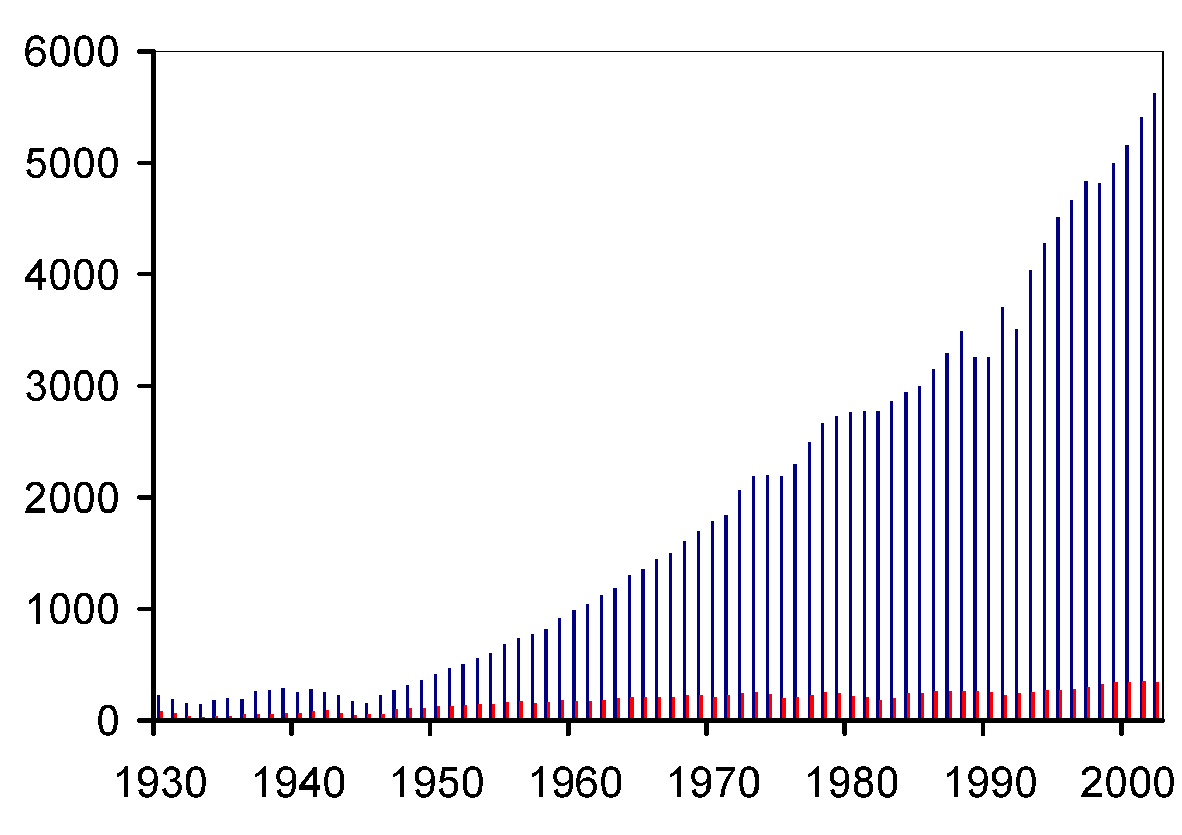 Diagram showing the production of concrete (million cubic metres) from 1930 to 2002. World production in blue, USA production in red. Created by JohnM.